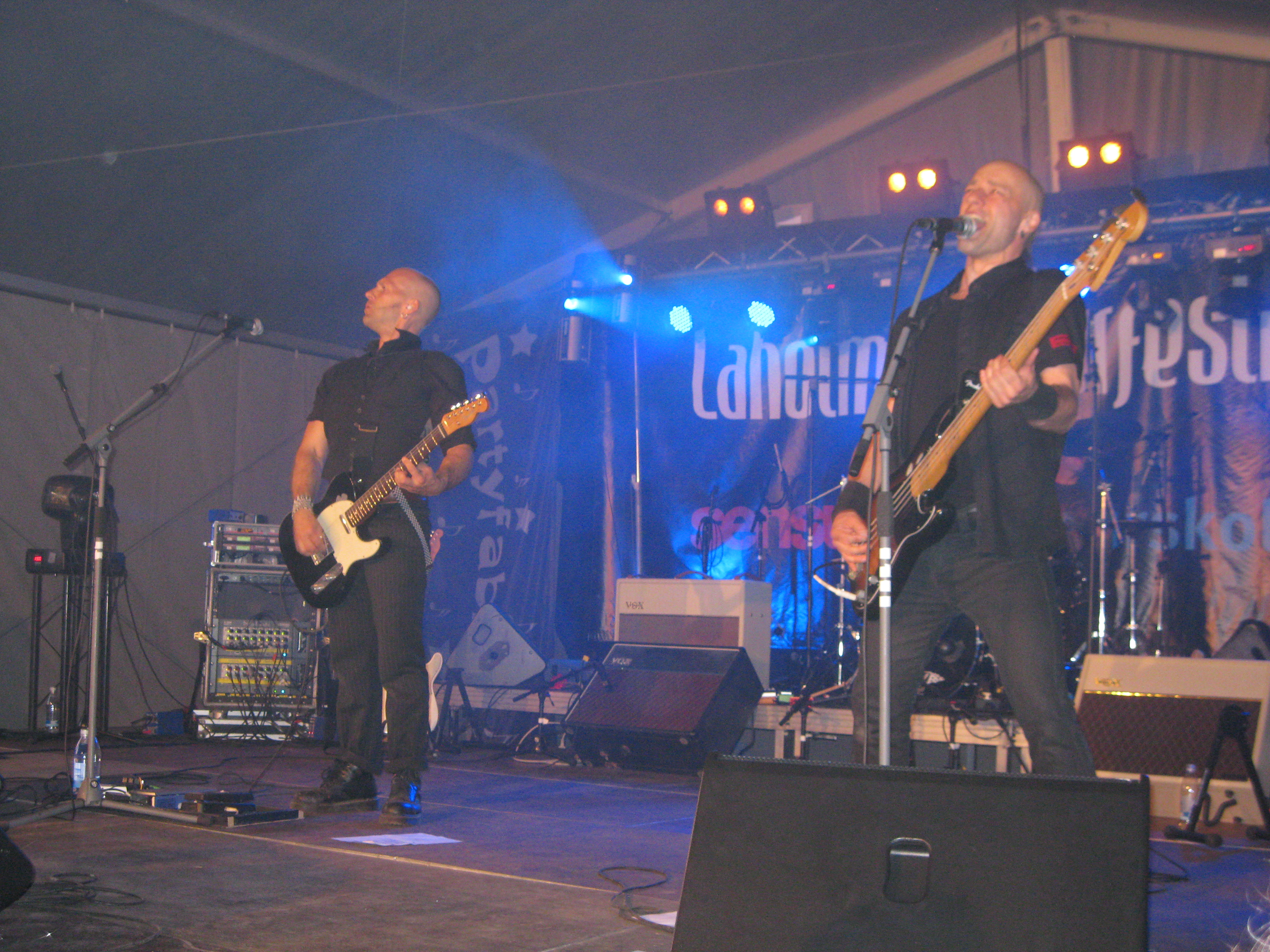 Swedish rock band Terror Pop at Laholmsfestivalen 2010.